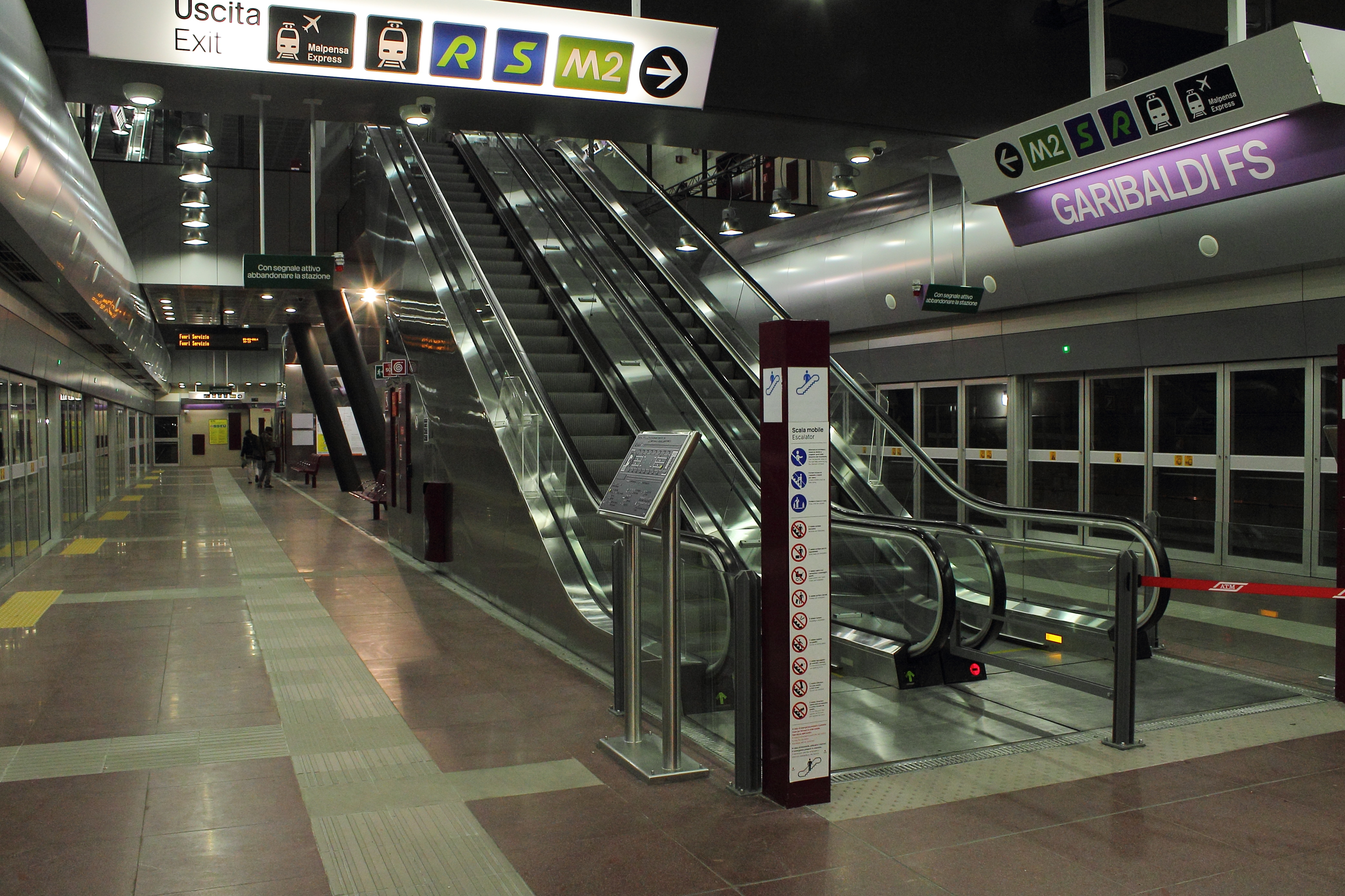 Line 5 - lilla - metropolitana di Milano - Garibaldi station